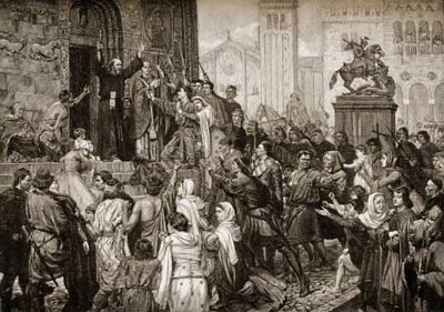 Peter the Hermit preaches the Crusades to the people